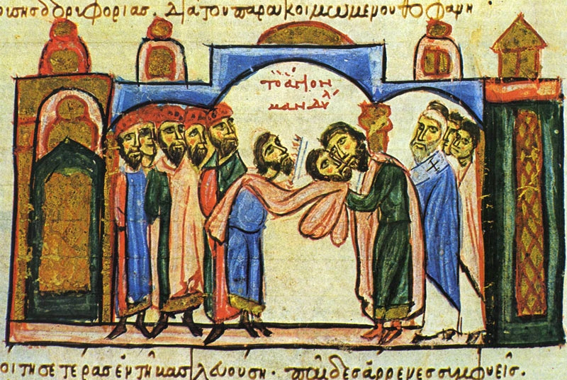 The surrender of the Holy Mandylion (the "Image of Edessa"), bearing the face of Christ, by the inhabitants of Edessa in Mesopotamia to the Byzantines in 944.